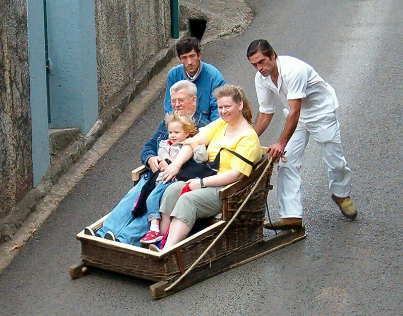 A carro de cesto descending from Monte, Madeira, 2006